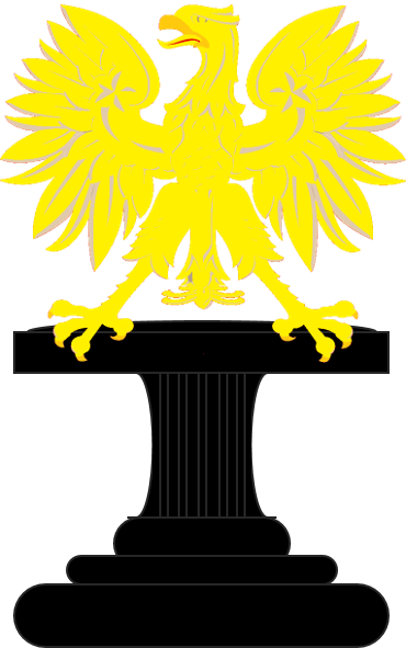 The heraldic badge of Sir Alastair Norris